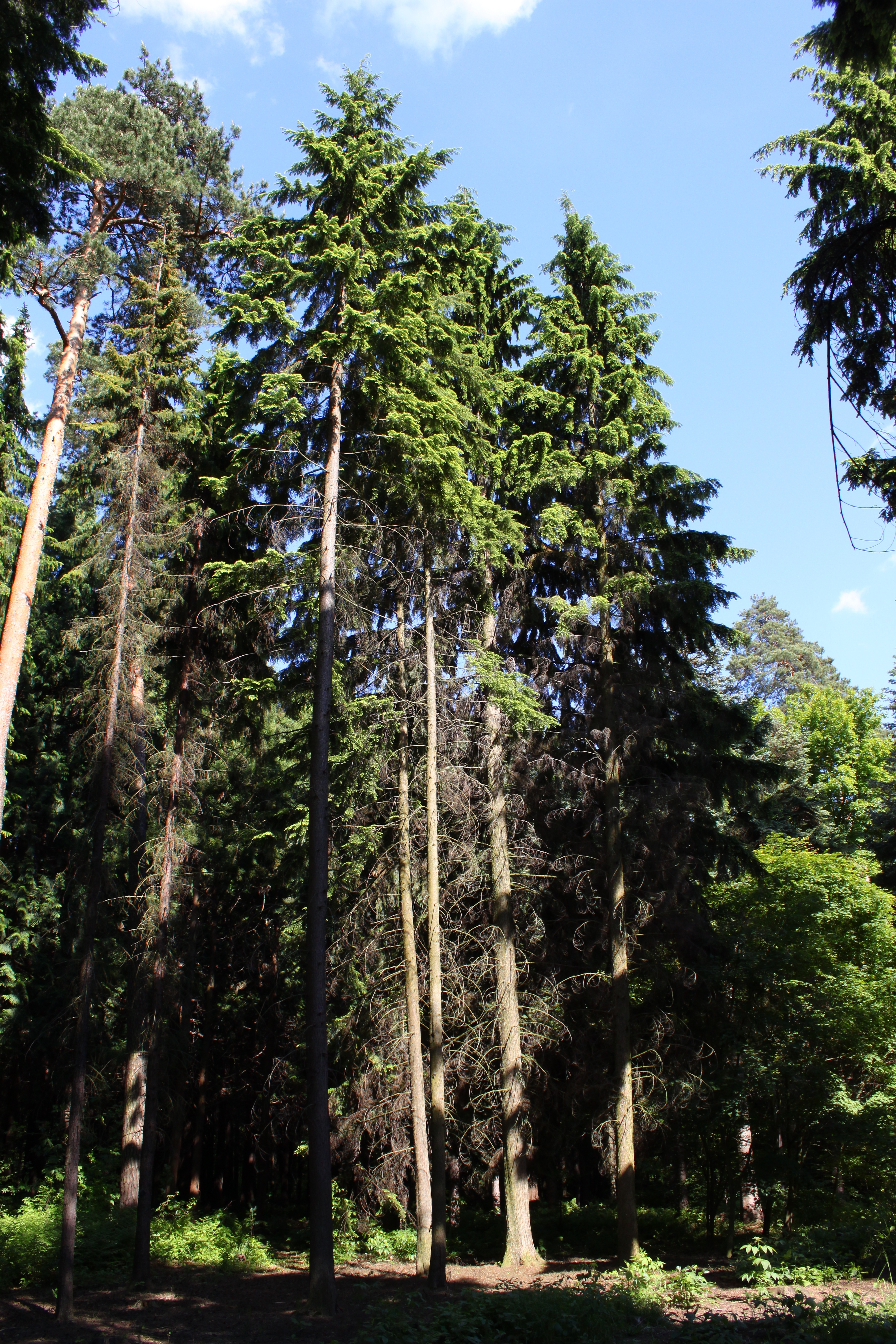 Tsuga heterophylla in Rogów Arboretum, Poland